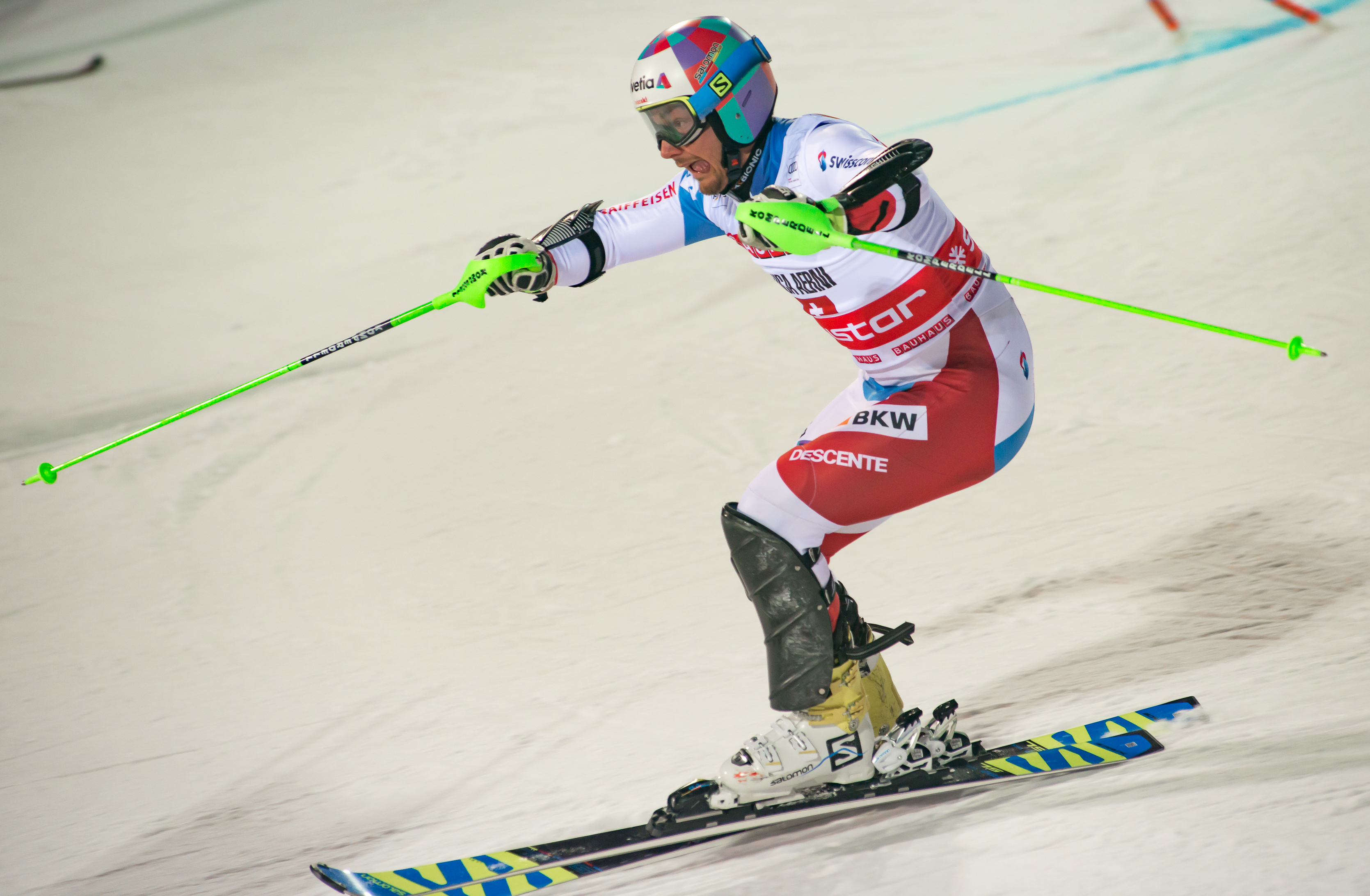 Luca Aerni Photo by Roland Osbeck